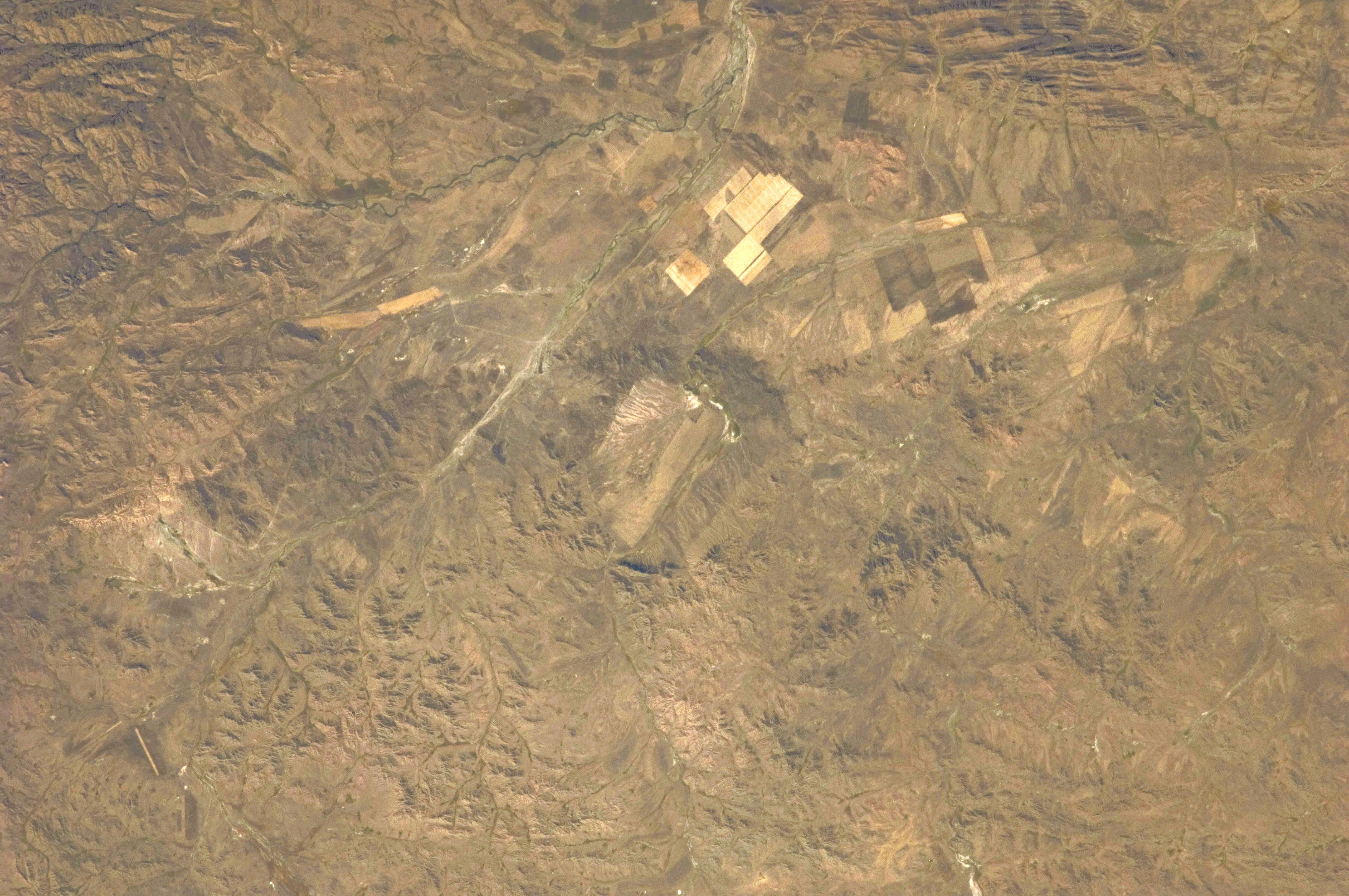 Bigach impact crater, Kazakhstan. At approximately five million years old, Bigach is a relatively young geologic feature. However, active tectonic processes in the region have caused movement of parts of the structure along faults, leading to a somewhat angular appearance (image centre). The roughly circular rim of the 8-kilometer (diameter) structure is still discernible around the relatively flat interior. In addition to modification by faulting and erosion, the interior of the impact structure has also been used for agricultural activities, as indicated by the presence of tan, graded fields. Other rectangular agricultural fields are visible to the north-east and east. The closest settlement, Novopavlovka, is barely visible near the top of the image.